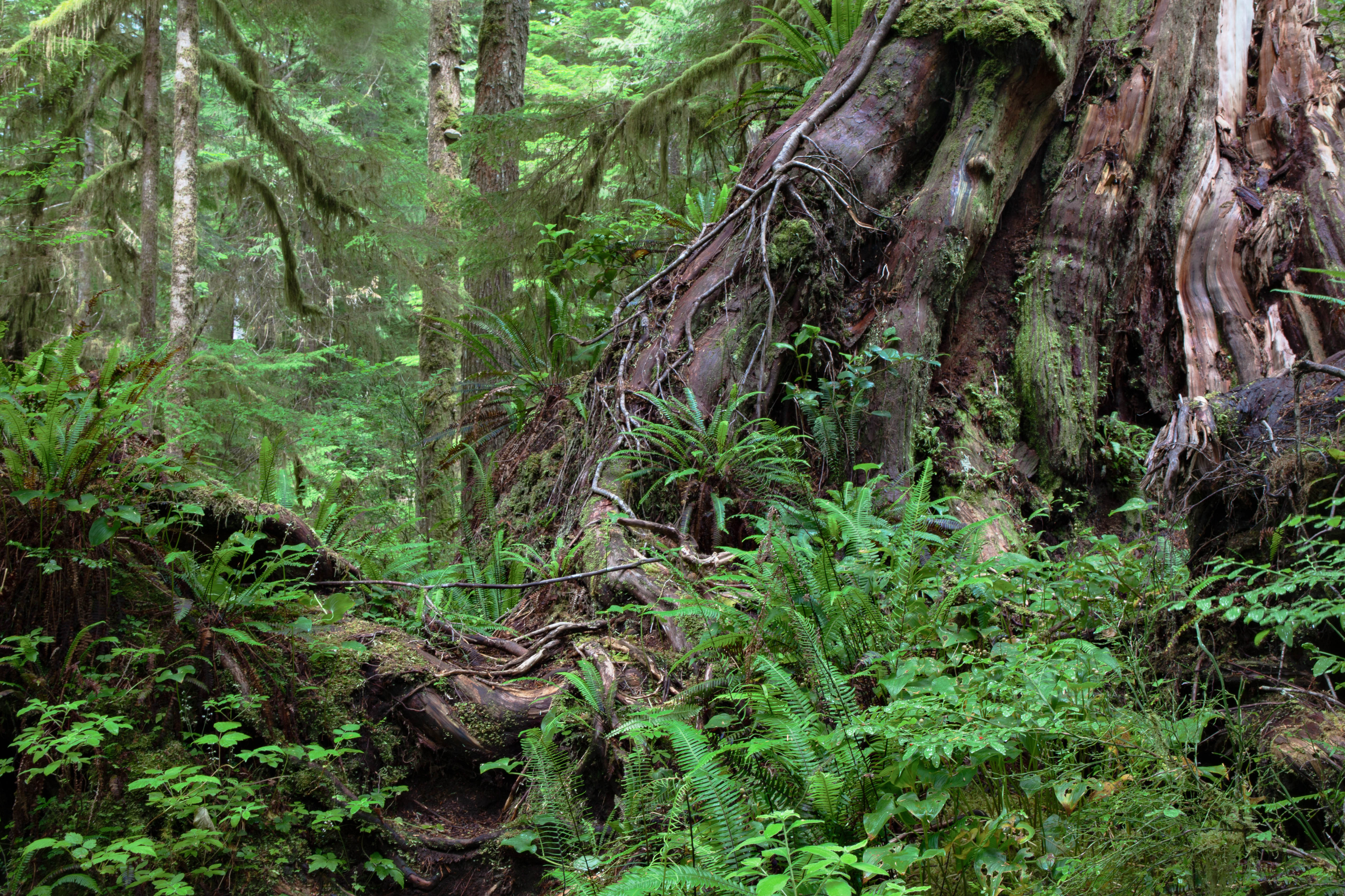 Rainforests of Pacific Rim National Park Reserve, Canada